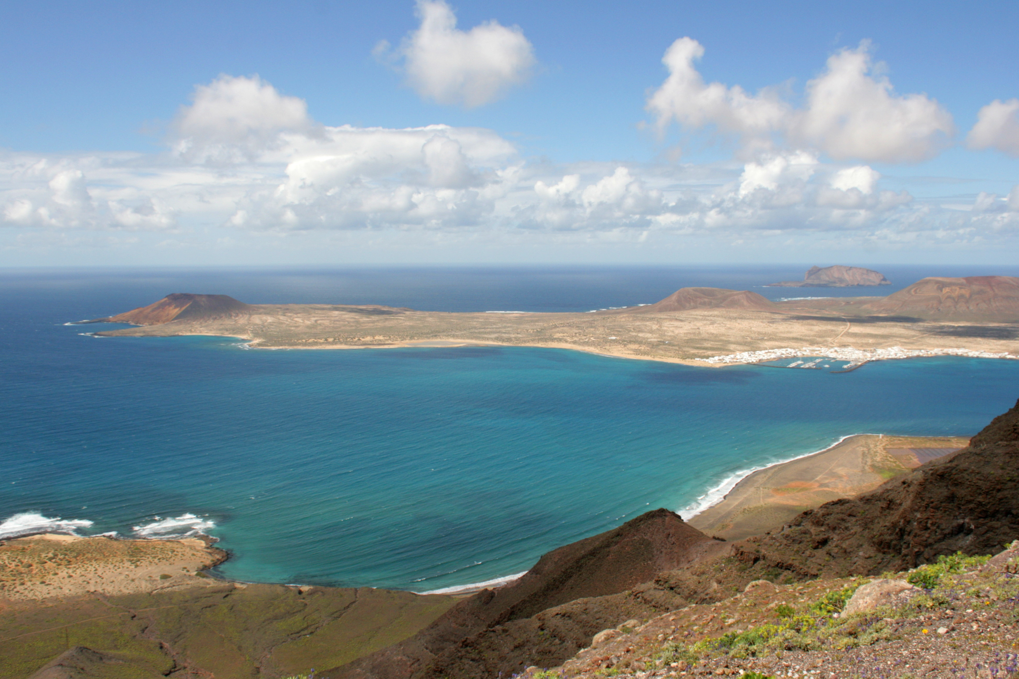 La Graciosa seen from Calle Remo (LZ-202) in Haría